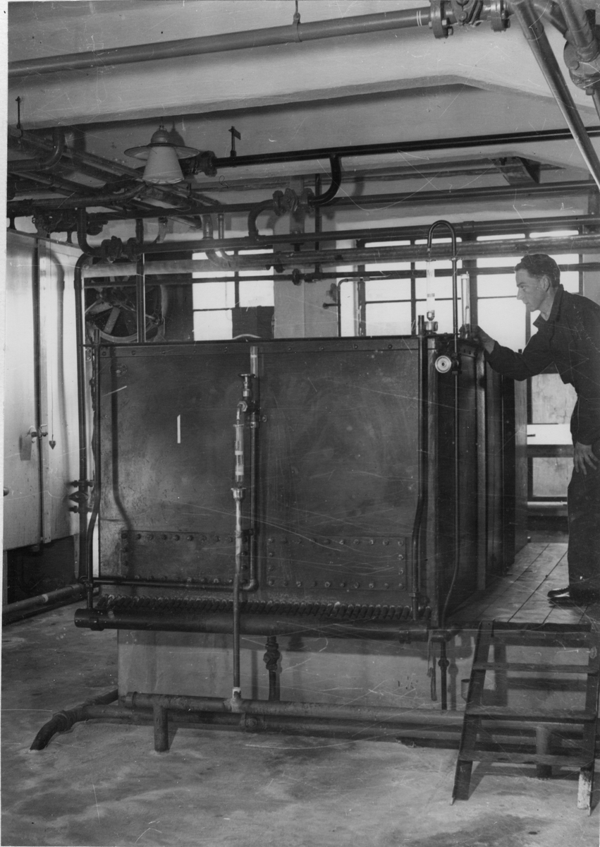 Aktiebolaget Nordisk Silkecellulosa, Norrköping, sulfideringstrummor, 1938.